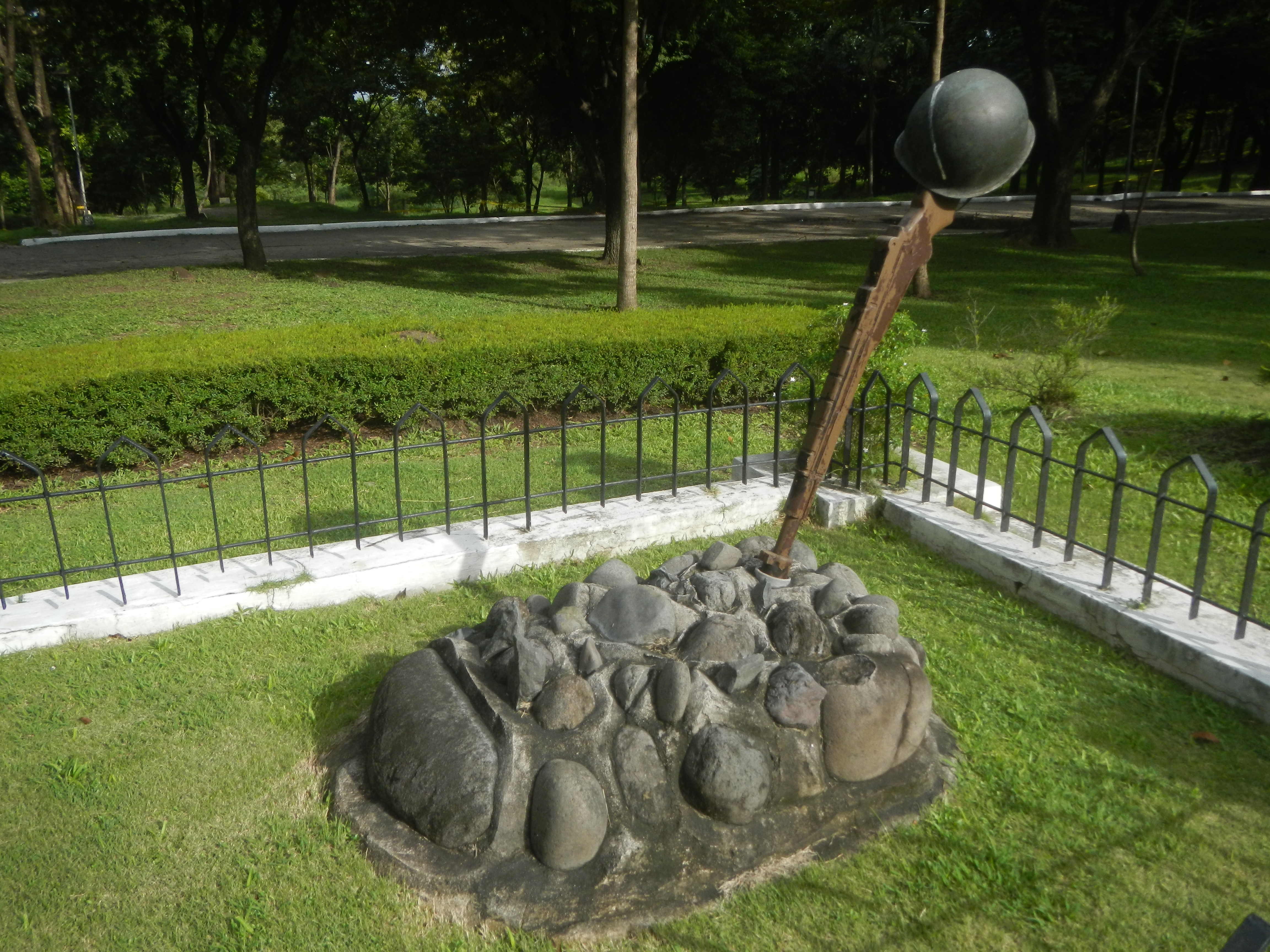 Legislative district of Taguig City Legislative district of Pateros-Taguig City Barangay Fort Bonifacio Bonifacio Global City 14°33'6"N 121°3'4"E Bonifacio Global City Fort Bonifacio (barangay) Heroes' Cemetery Burial of Ferdinand Marcos Libingan ng Mga Bayani Signage; Heroes Memorial Gate (Libingan ng Mga Bayani, Fort Bonifacio, Taguig City) Ferdinand E. Marcos Carlos P. Garcia Elpidio Quirino Diosdado Macapagal Graves of Presidents of the Philippines (Libingan ng Mga Bayani, Fort Bonifacio, Taguig City) Philippine Tomb of the Unknown Soldier (Libingan ng Mga Bayani, Fort Bonifacio, Taguig City) Barangay Western Bicutan, Taguig City Western Bicutan (Taguig) 14°31'3"N 121°2'22"E Ususan 14°31'47"N 121°3'56"E Pinagsama Pinagsama 14°31'38"N 121°2'59"E Taguig City (Note: Judge Florentino Floro, the owner, to repeat, Donor Florentino Floro of all these photos hereby donate gratuitously, freely and unconditionally all these photos to and for Wikimedia Commons, exclusively, for public use of the public domain, and again without any condition whatsoever).